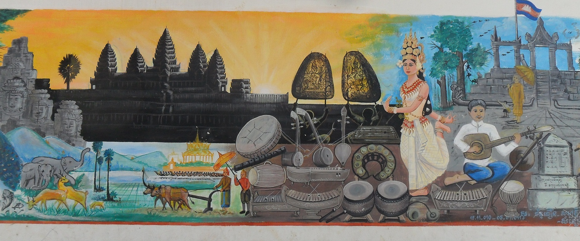 Painting of the Cambodian Life, An Kau Sai School, Siem Reap, Cambodia